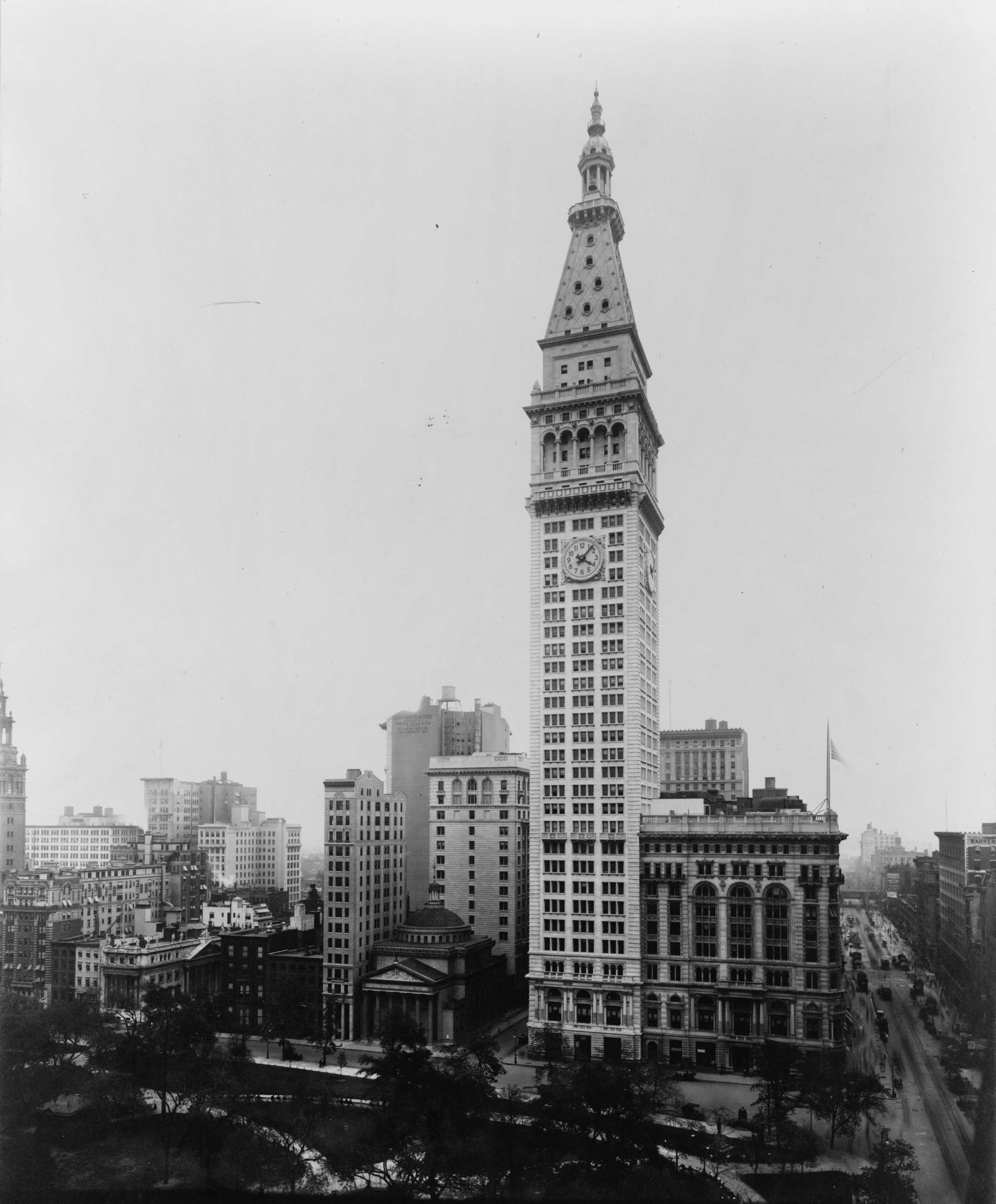 Metropolitan Life Bldg., Manhattan, New York City, in 1911.